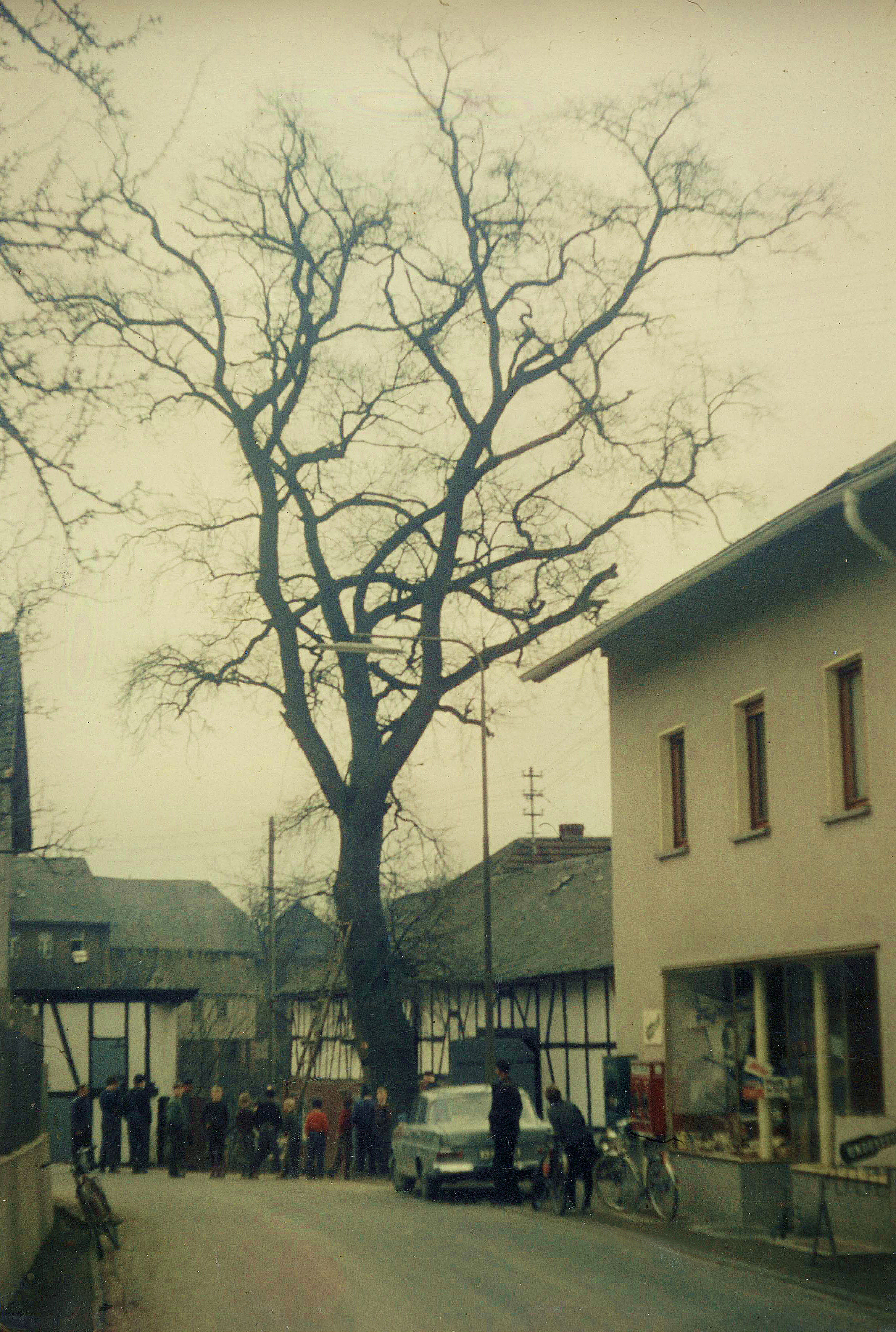 Michelbach Westerwald in the 1960s